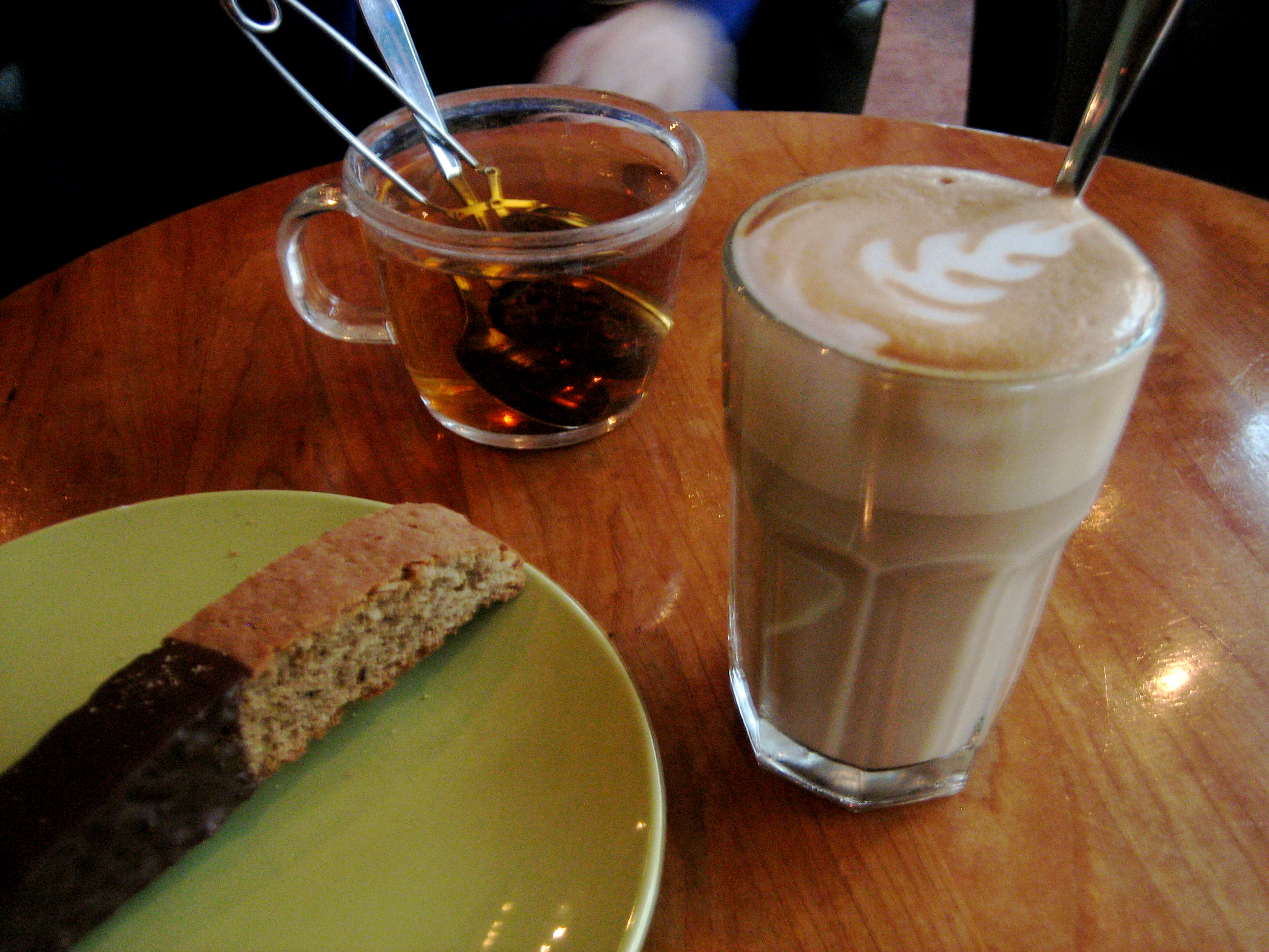 The Swedes are serious about fika.